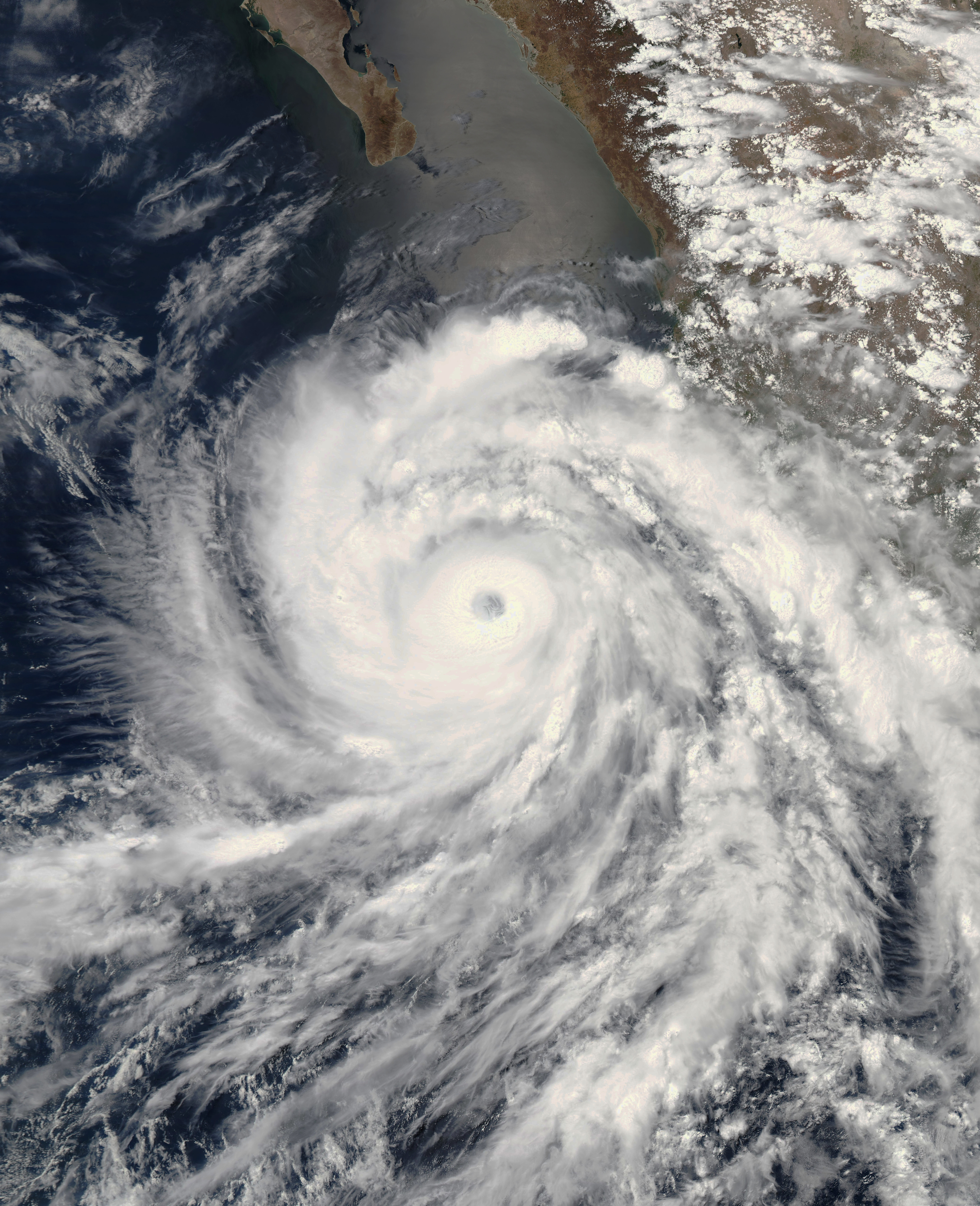 Hurricane Bud on June 11, 2018 at 20:24 UTC as a Category 3 hurricane.